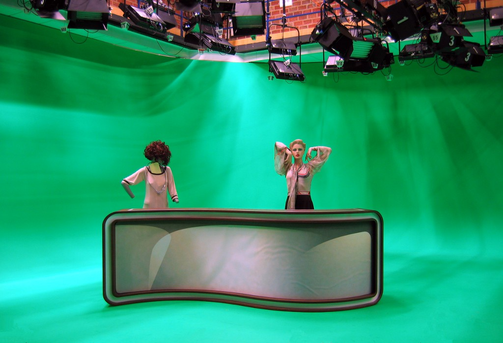 Virtual television studio with chroma key technique (green-screen), located at Saarländischer Rundfunk